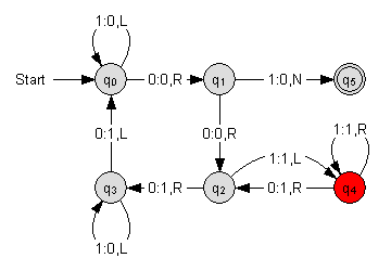 Example for a state transition diagram of a turing machine. Created with the program AutoEdit, a component of AtoCC.